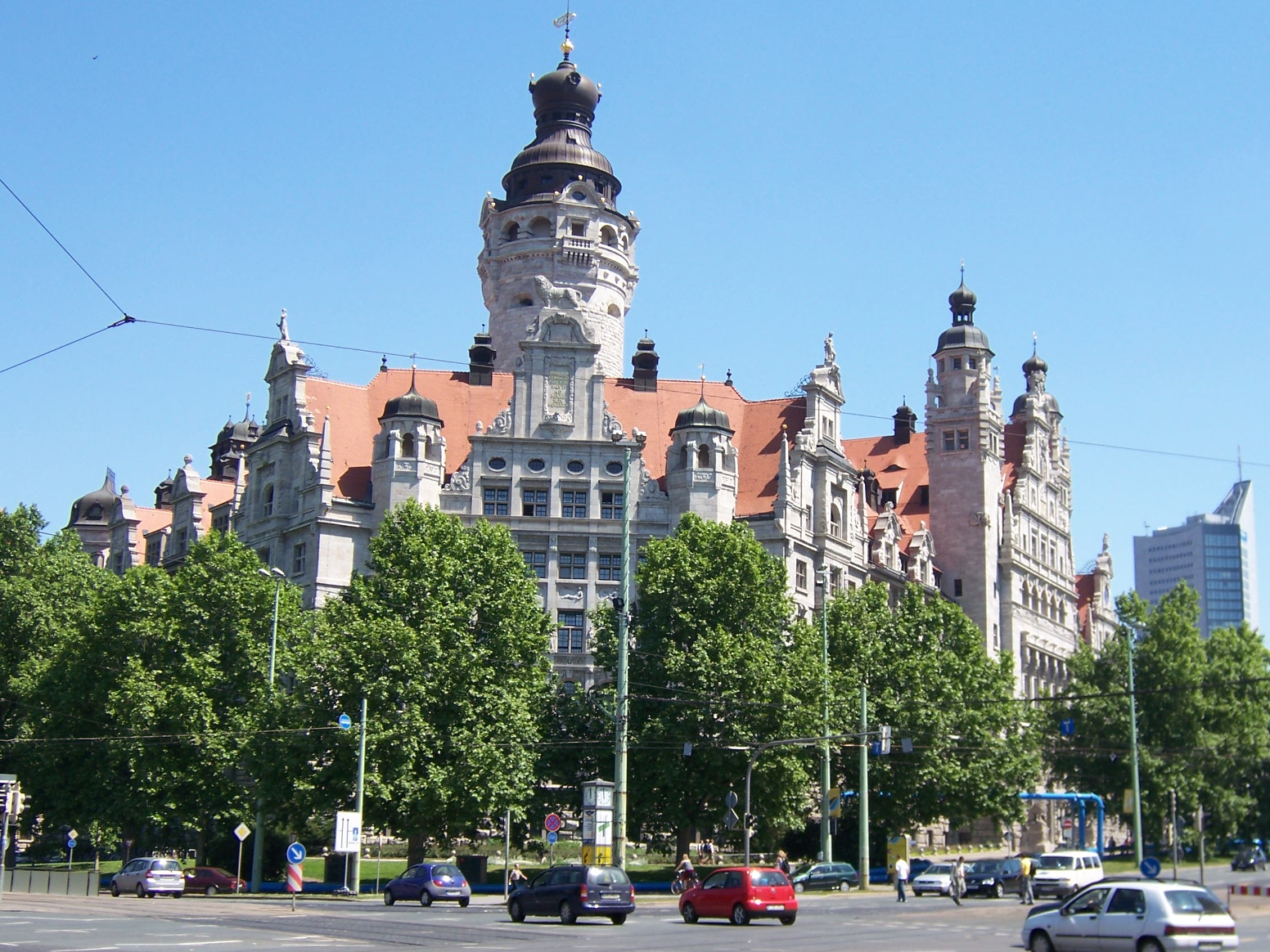 Neues Rathaus (New Town Hall) in Leipzig, Saxony (Germany)